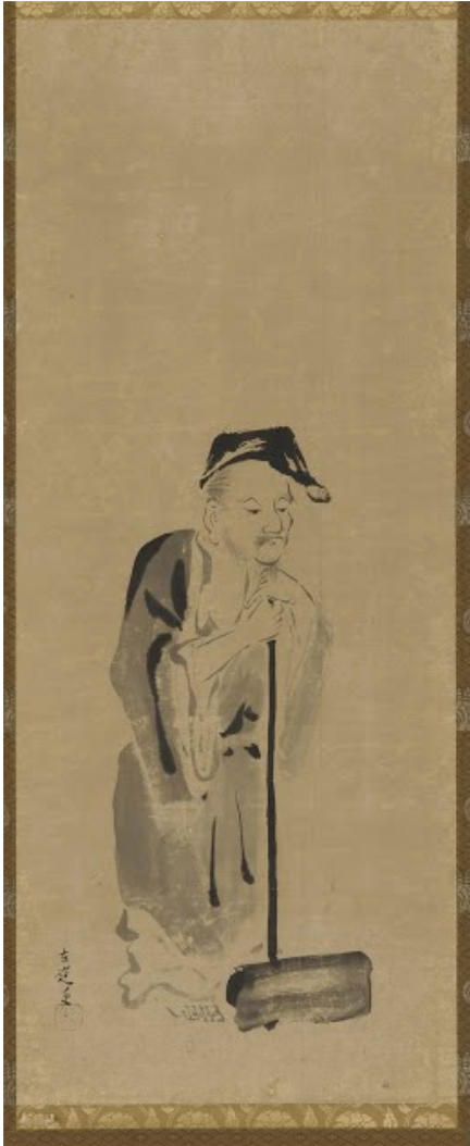 Title: Shide (Jittoku) Creator: Artist: Kano Sadanobu Location: Japan External Link: For more information about this and thousands of other works of art in the Freer